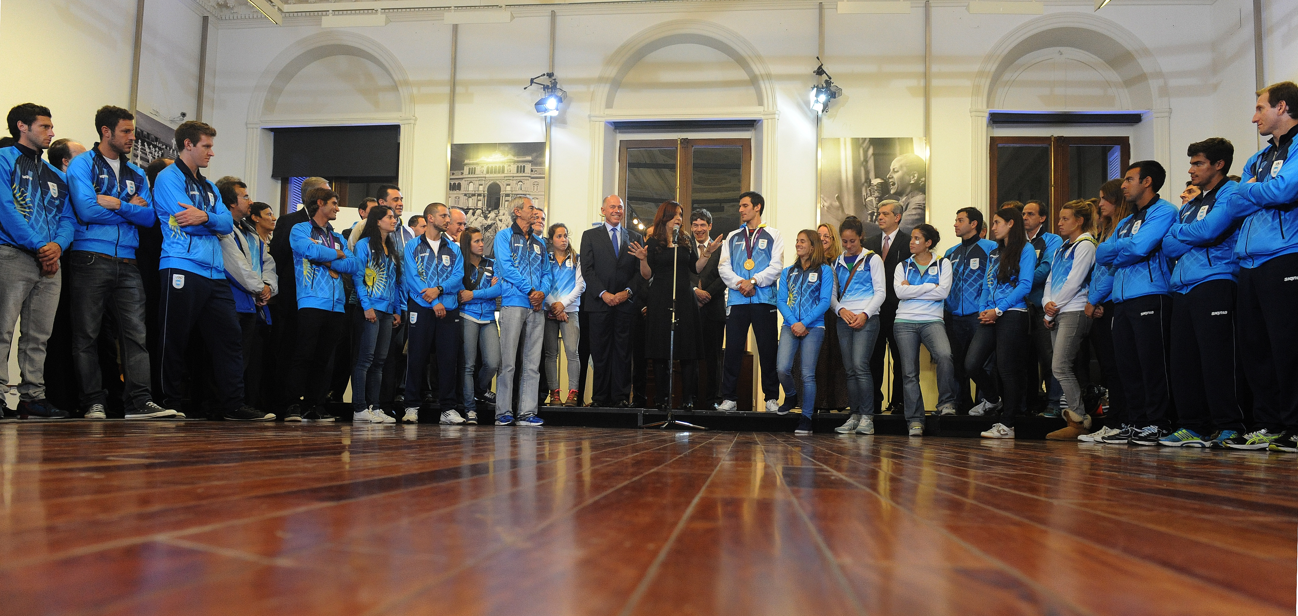 President of Argentina Cristina Kirchner and athlets participating at 2012 Olimpics.